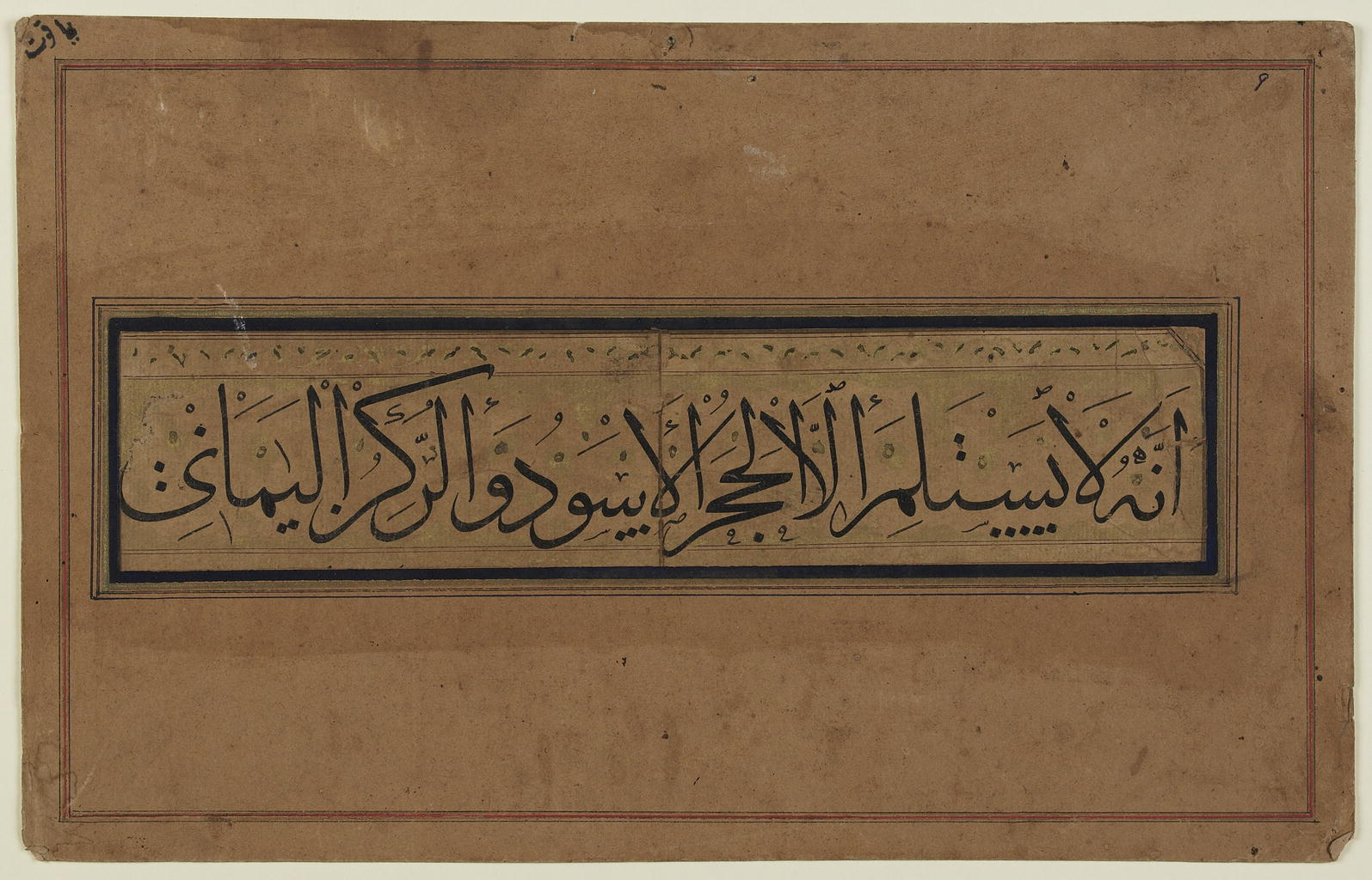 This line of text reads: "Annahu la yastalim ila al-hajar al-aswad wa-al-rukn al-yamani" (He does not permit (it) except (at) the Black Stone and the Yemenite Corner). It appears that this text comprises a fragment of a pilgrimage guide or prescriptive text that states that, during ritual circumambulation (tawaf), touching or kissing the Ka'ba only is permitted at the Black Stone and the Yemenite Corner (the southeast corner). On the fragment's verso appears a note attributing the piece to the famous 13th-century calligrapher Yaqut al-Musta'simi (d. 696/1296). Active at the 'Abbasid court in Baghdad, he lived through the Mongol invasions (Qadi Ahmad 1959: 57-60). He wrote in the six cursive styles, which included thuluth (used here).